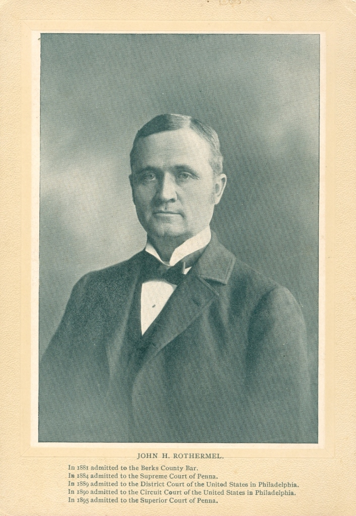 Photograph of John Hoover Rothermel